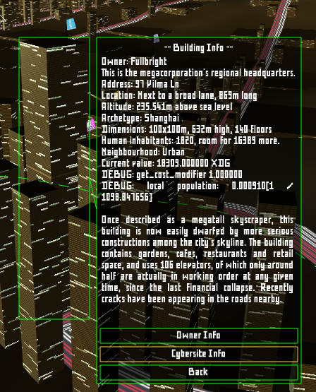 Screenshot from the game AdvertCity